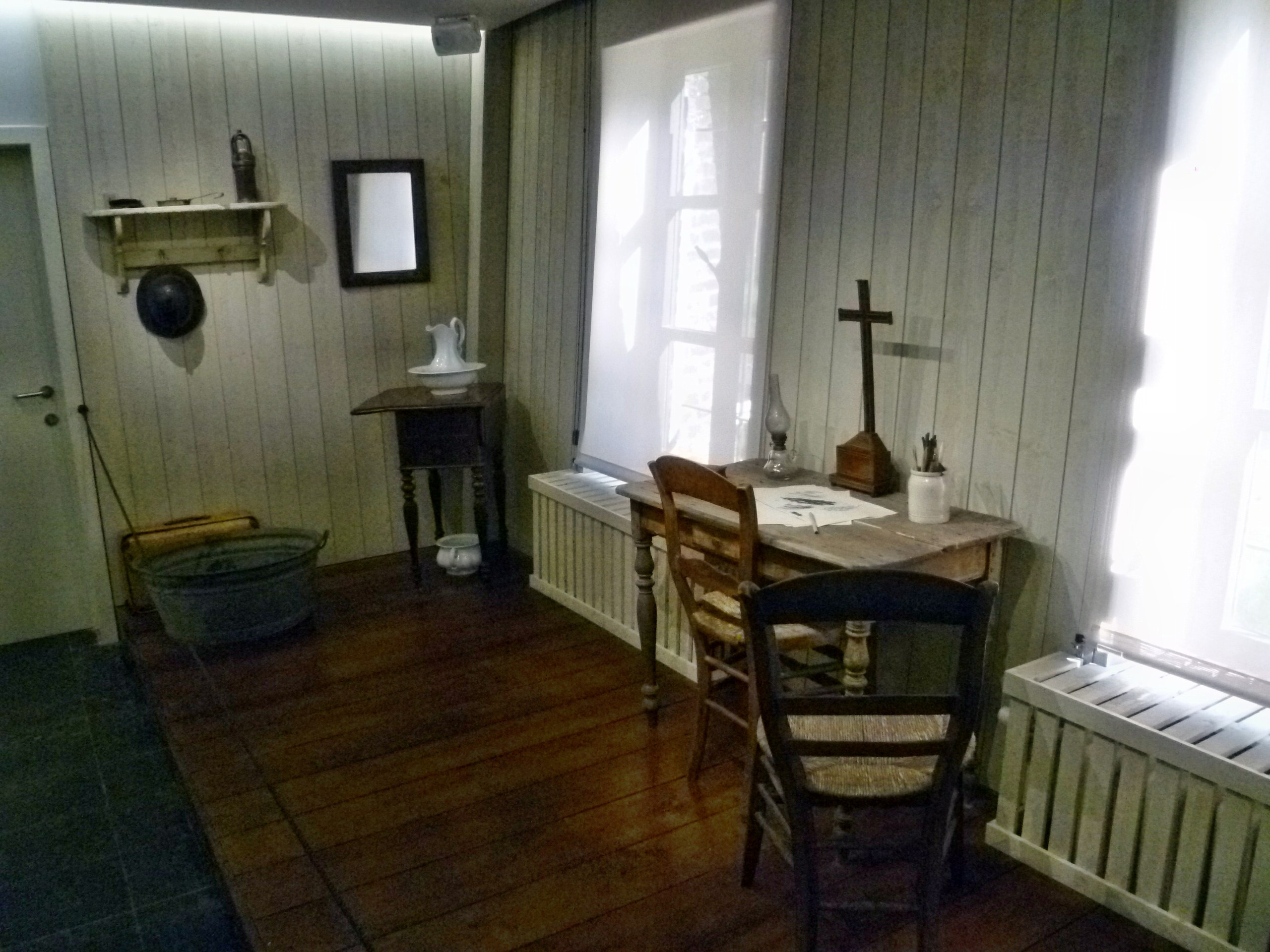 House in Cuesmes, Belgium where Vincent van Gogh lived during three months in 1880